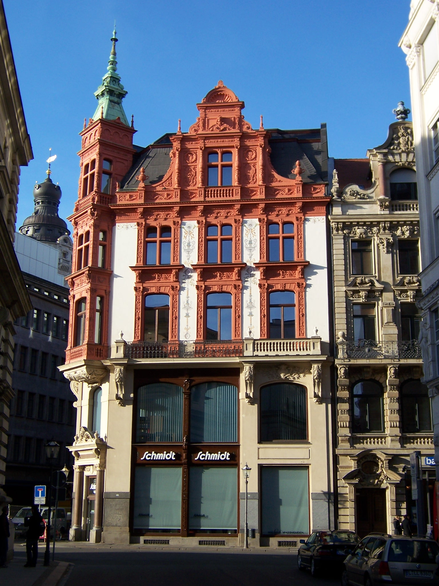 Office Building of the soap boiler Heinrich Louis Klinger in Leipzig, Petersstrasse 48 ( "Klingerhaus"), built in 1887/88 by Arwed Rossbach. The previous building was the birthplace of the painter and sculptor Max Klinger.